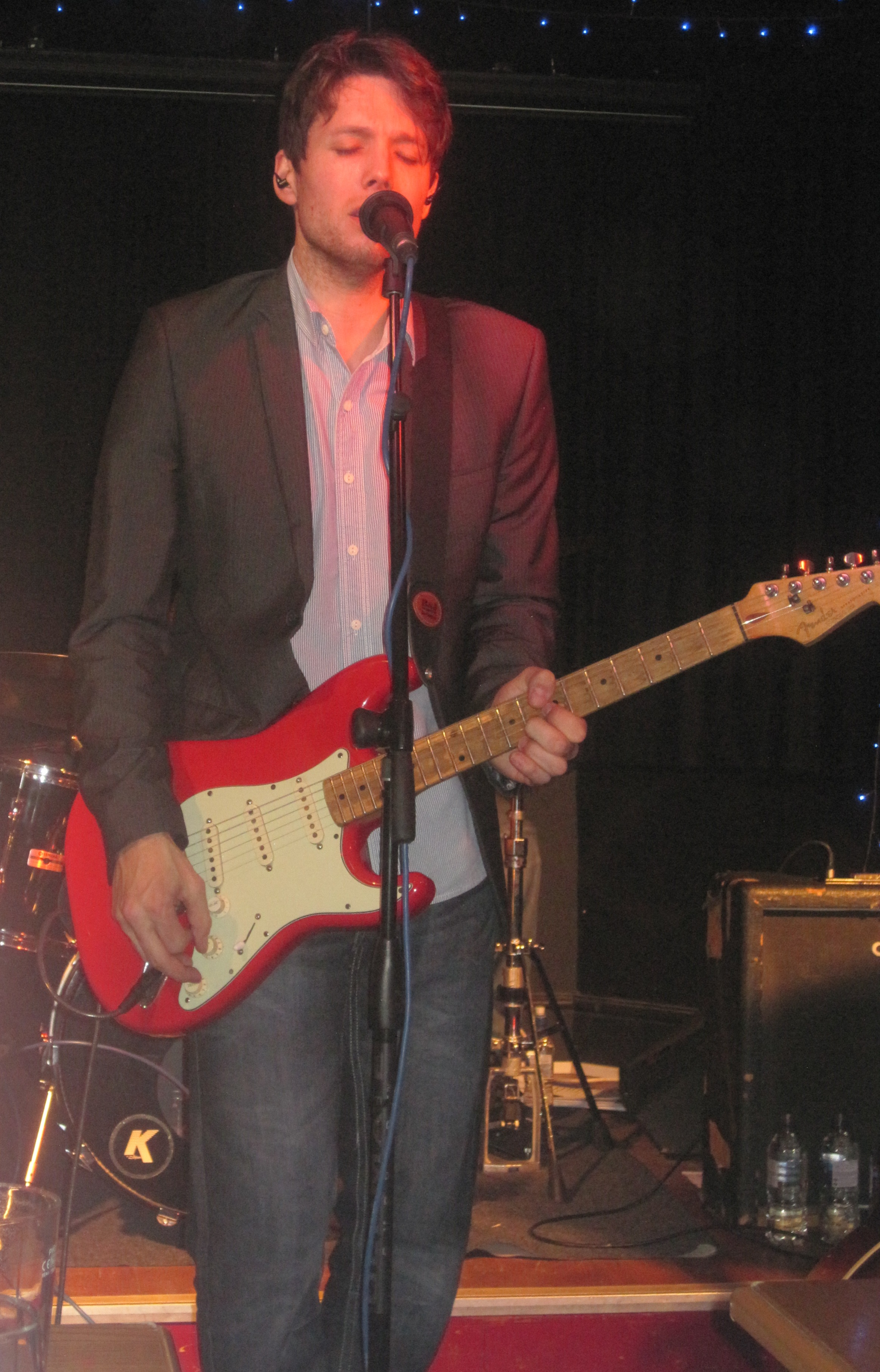 Aynsley Lister performing at the Scarborough Blues Club, 11th December 2012